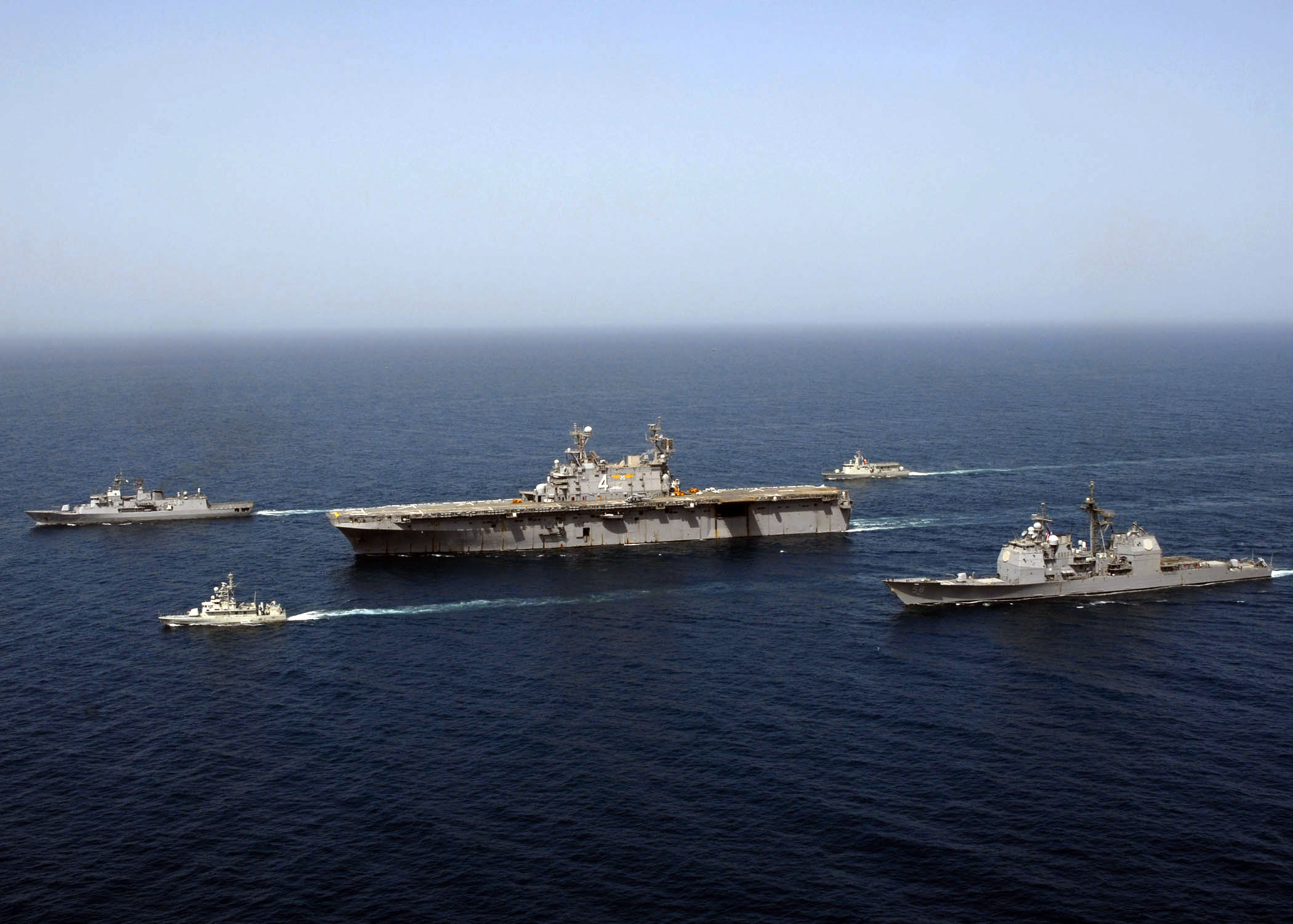 PERSIAN GULF (May 14, 2008) The amphibious assault ship USS Nassau (LHA 4) leads a formation of the coalition ships including the guided missile cruiser USS Philippine Sea (CG 58), the Bahraini Navy frigate RBNS Al Manama (FPBGH 50), the Royal New Zealand Navy frigate HMNZS Te Mana (F 111), and the United Arab Emirates Navy missile boat UAENS Mubarraz (P4401) during Exercise Goalkeeper III in the Persian Gulf. The multi-lateral Goalkeeper III exercise includes participation from Bahrain, New Zealand, United Arab Emirates, Qatar, Great Britain and the U.S. The exercise is designed to train forces in various aspects of maritime security operations as well as command and control functions with the Royal Bahraini naval staff. MSO help develop security in the maritime environment, which promotes stability and global prosperity. These operations complement the counterterrorism and security efforts of regional nations and seek to disrupt violent extremists' use of the maritime environment as a venue for attack or to transport personnel, weapons or other material. U.S. Navy photo by Mass Communication Specialist 3rd Class Coleman Thompson (Released)